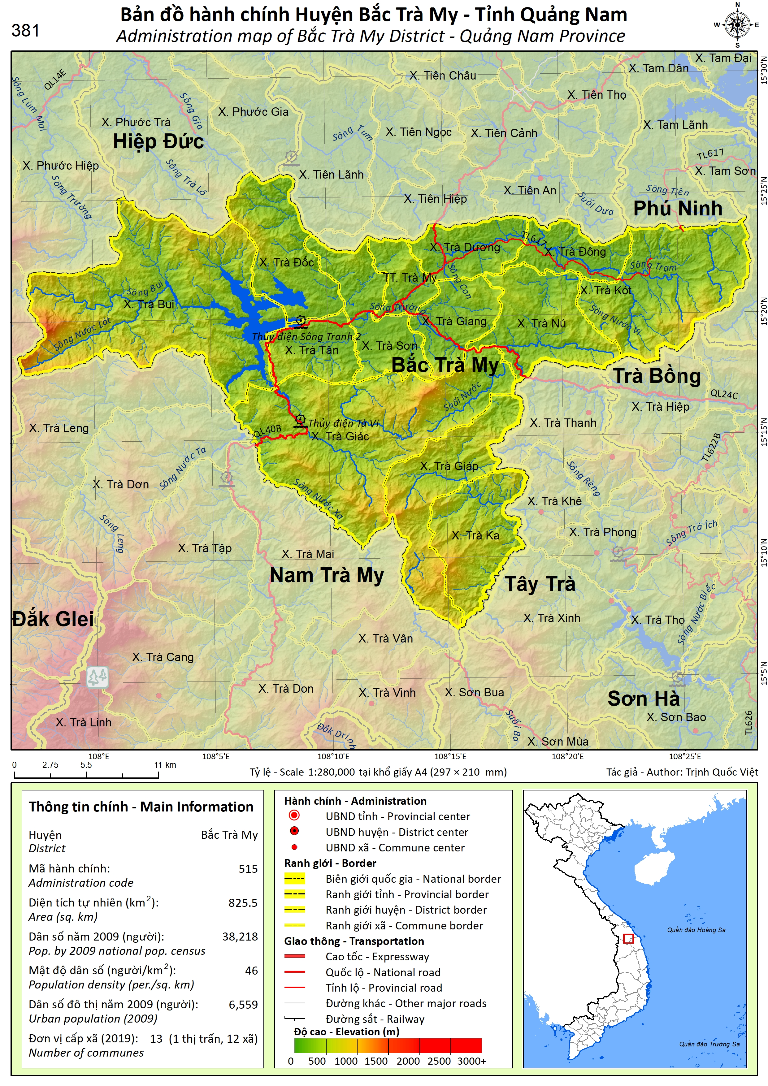 Administration map of Bac Tra My District